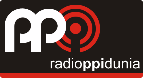 Official logo of Radio PPI Dunia Organization.